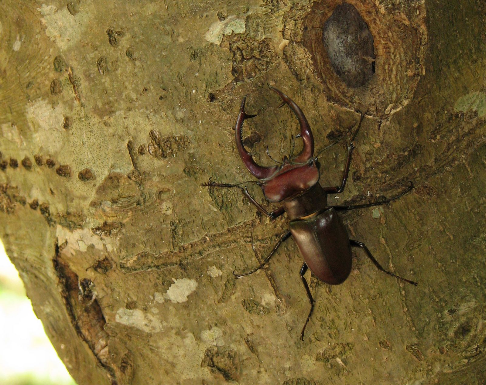 The genus and species of this stag beetle is unknown to me. I would like to know if anyone knows and would care to edit this description for me. It was seen just outside of Atlanta GA, US in June of 2007. Thanks. Lucanus elaphus Fabricius, 1775